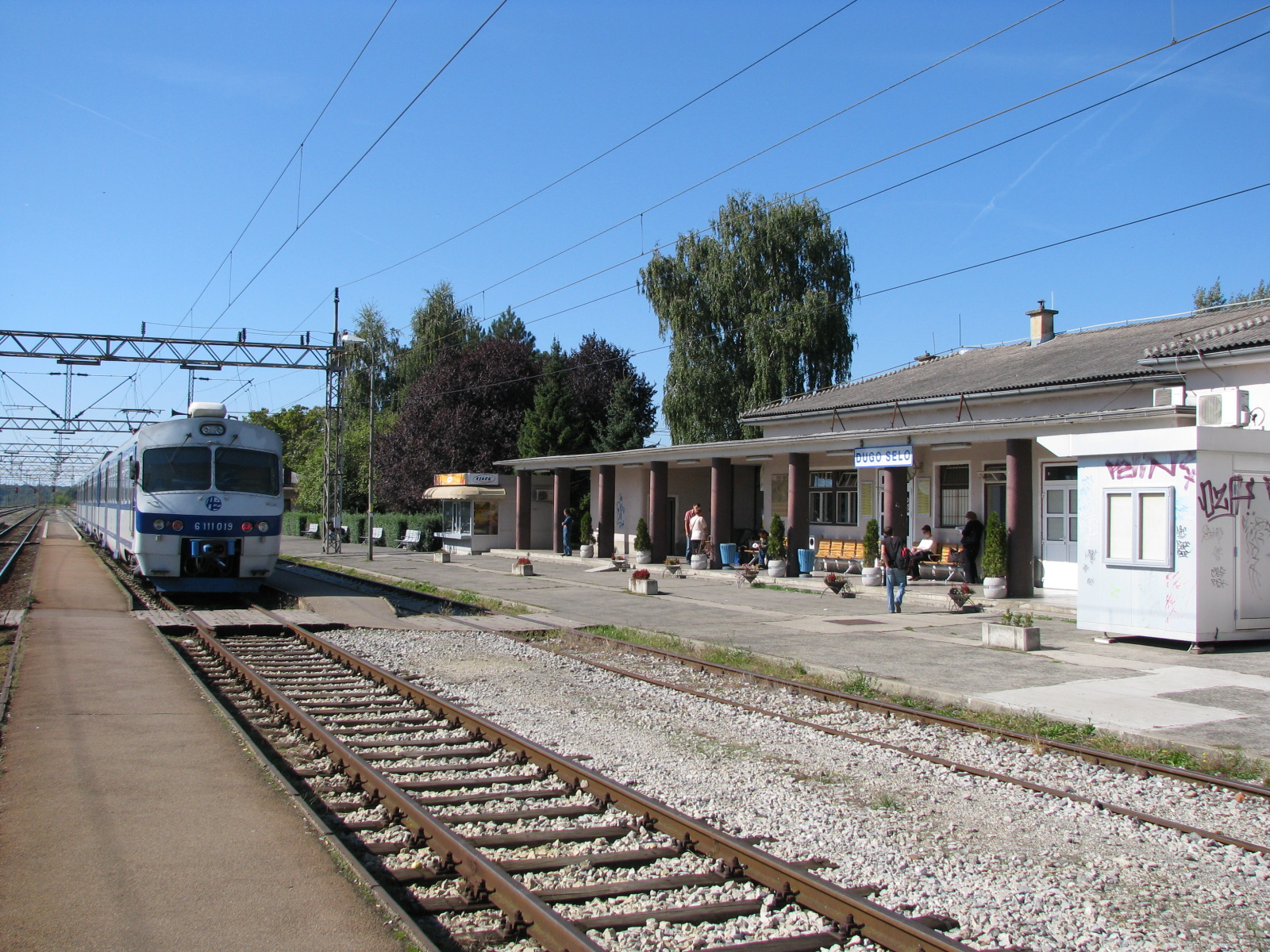 Train station in Dugo Selo, Croatia